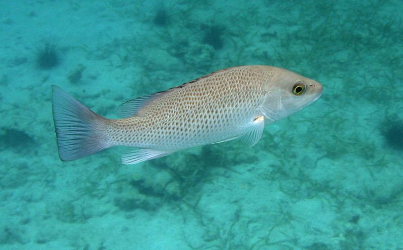 Grey snapper (aka Mangrove snapper, Lutjanus griseus). Taken in the US Virgin Islands.